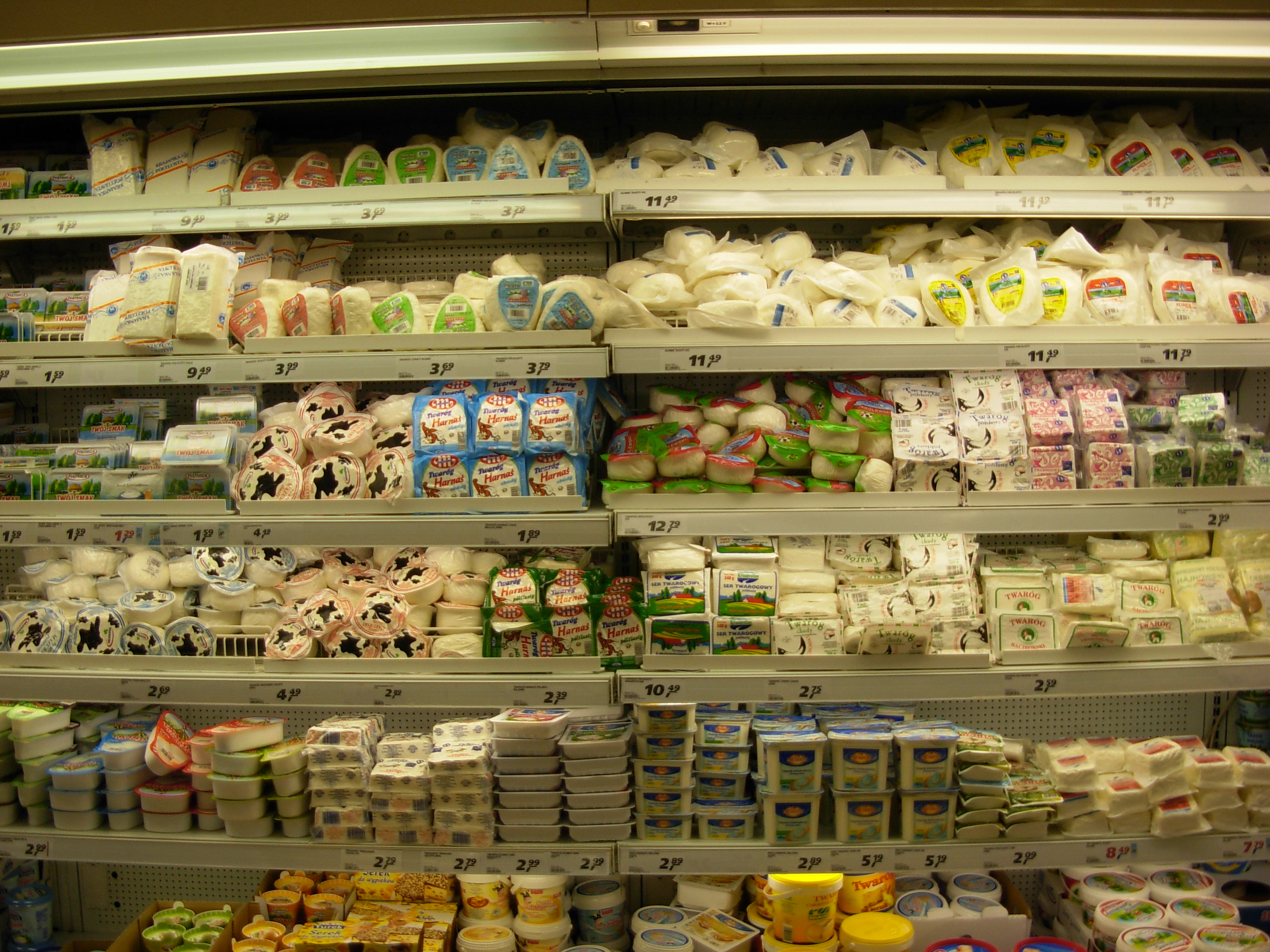 Selection of twaróg / quark cheese in a Polish supermarket